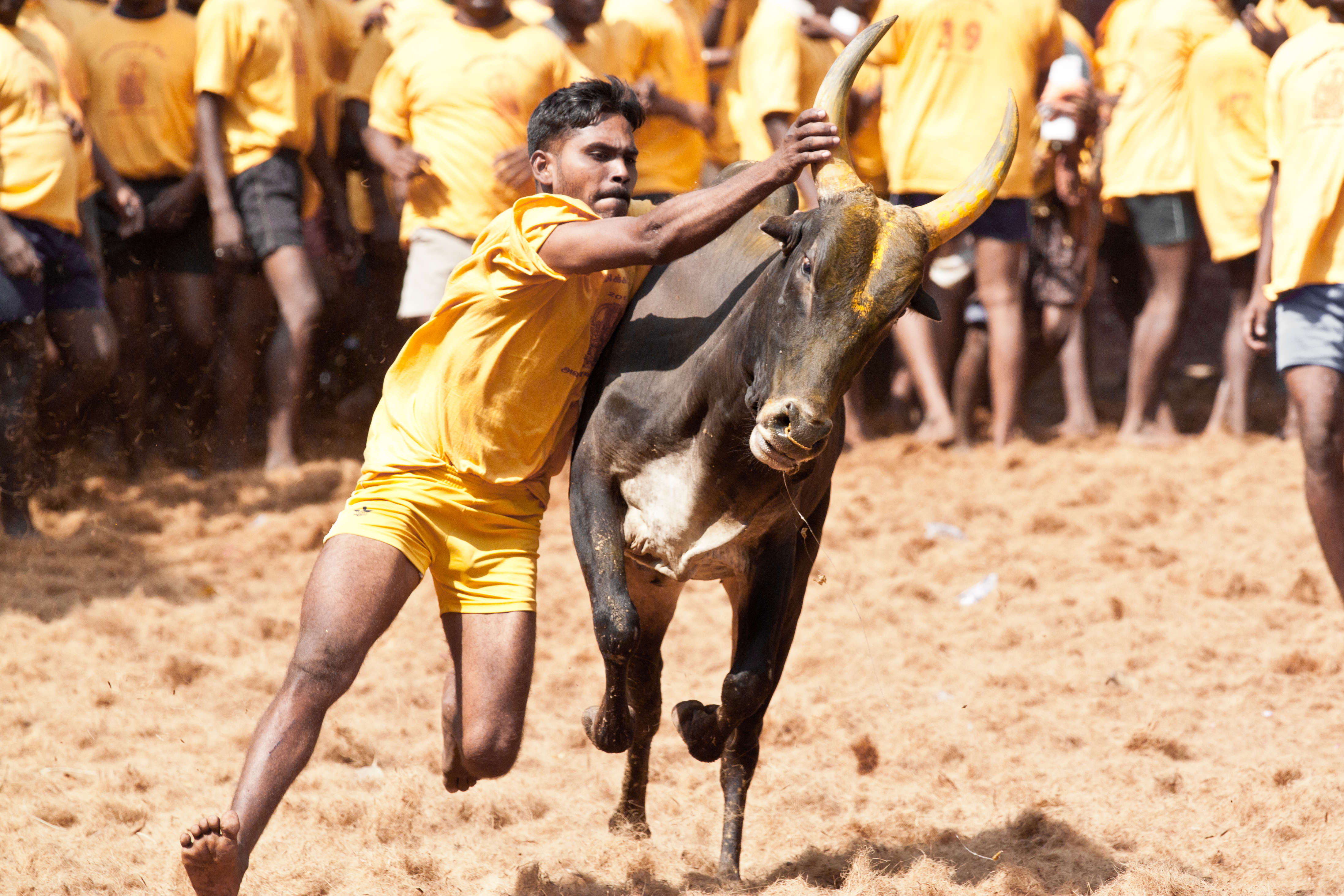 This was shot by me in our very own Jallikattu ( Traditional bull taming sport which happens only in Tamilnadu) in Avaniapuram near madurai 2012. This is been played every year to showcase the bravery of tamil adults.